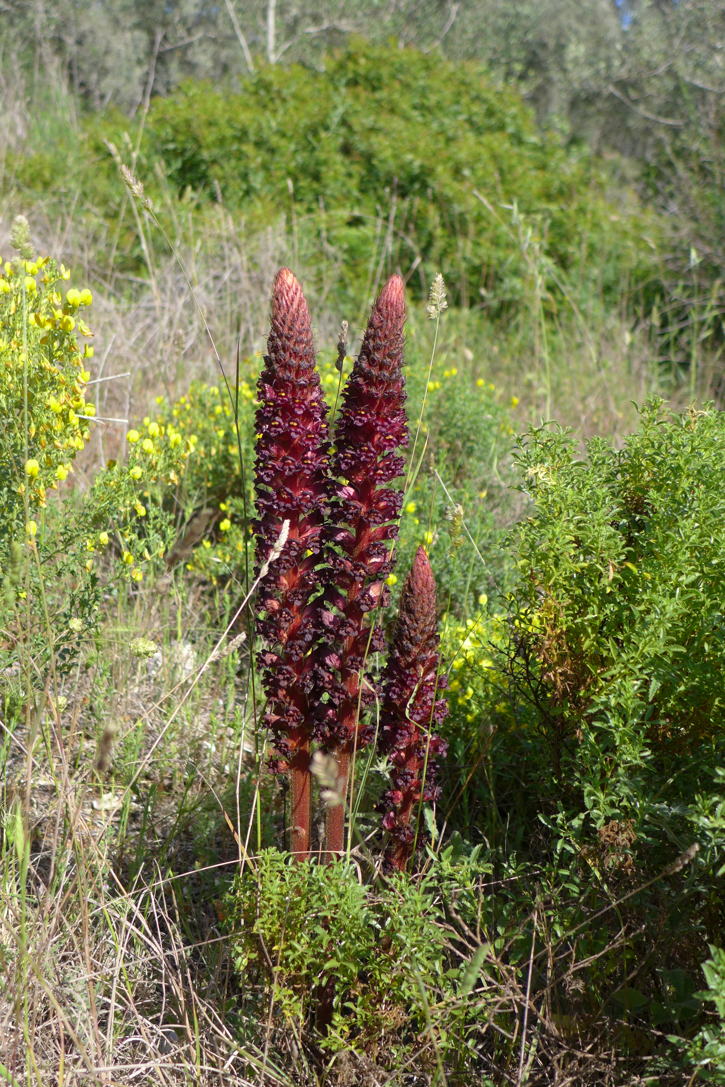 Ria de Alvor Nature Reserve, Algarve, Portugal May 2016 Orobanche foetida